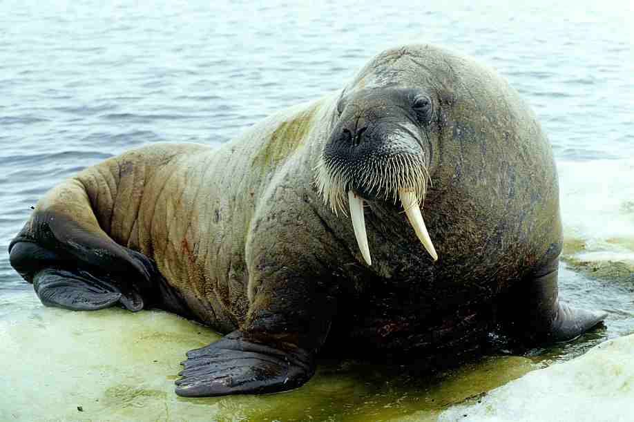 Old lonely bull III, Atlantic walrus (Odobenus rosmarus rosmarus) on ice flow in Foxe Basin (Nunavut, Canada)